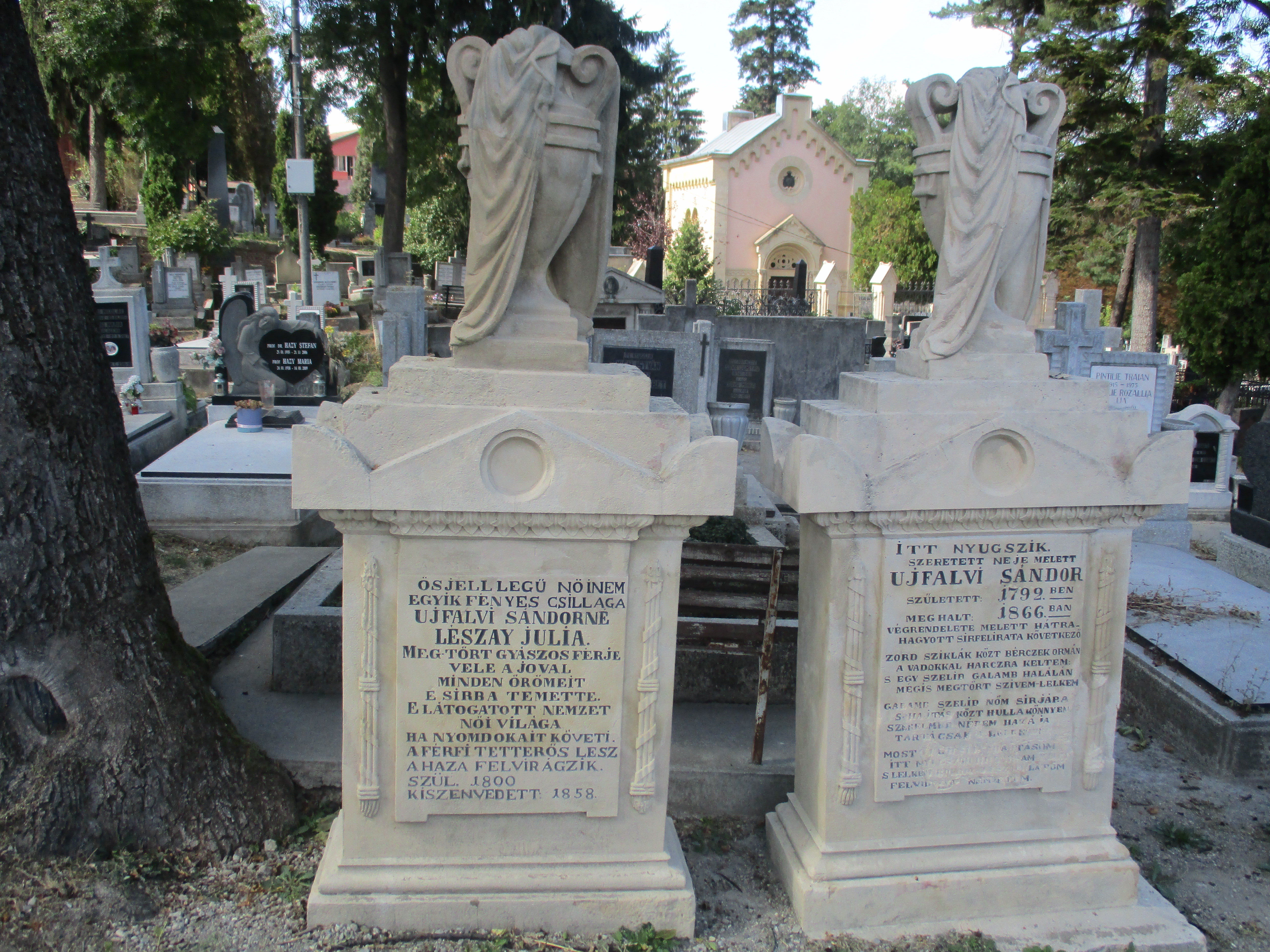 The grave of the Hungarian memorial writer from Transylvania Sándor Újfalvi (1792-1866) and that of his wife